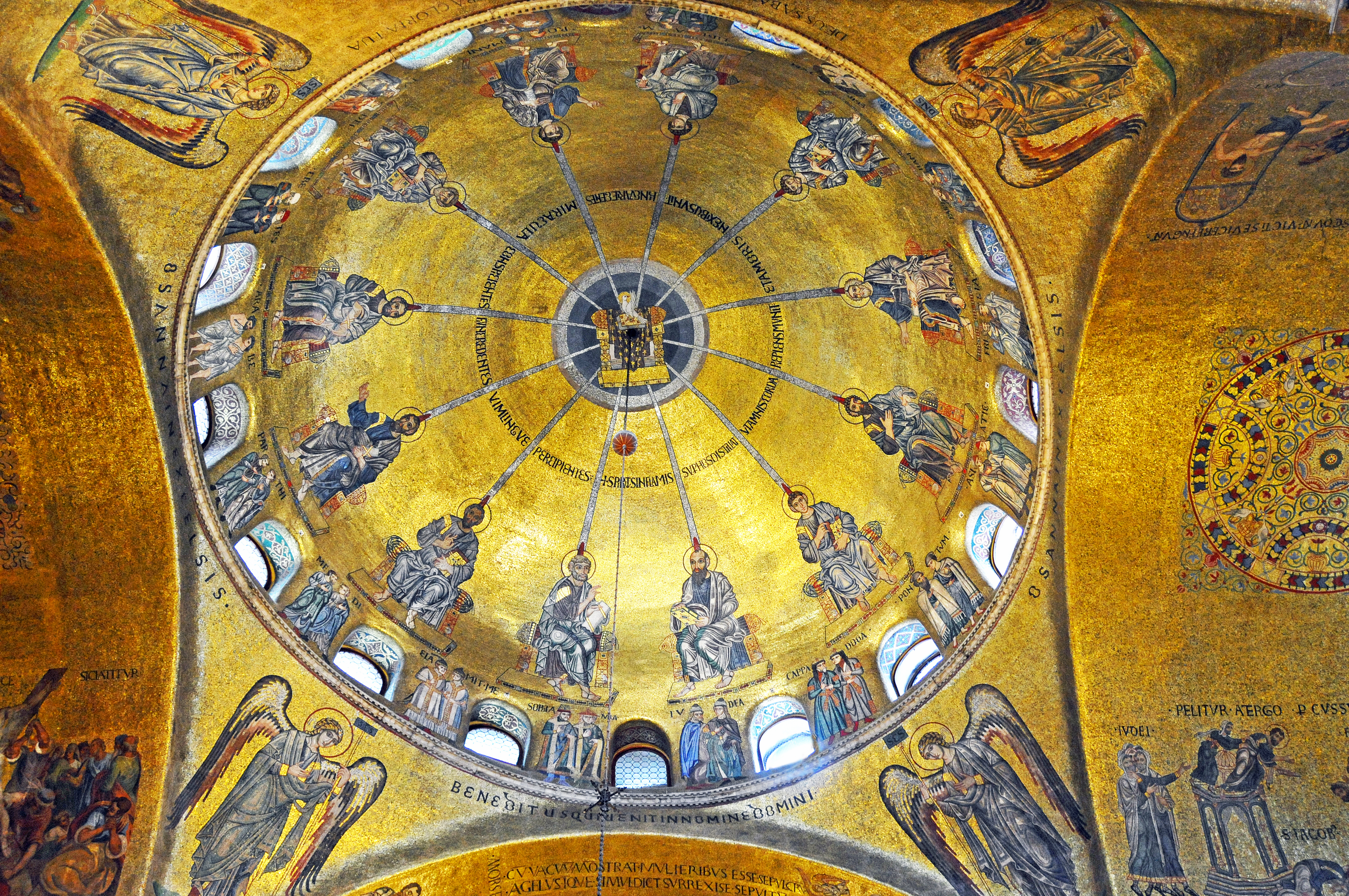 The Pentecost Mosaic, in the center is the dove of the Holy Spirit with the twelve apostles below. This is one of the oldest mosaics in the church dating from 1125.